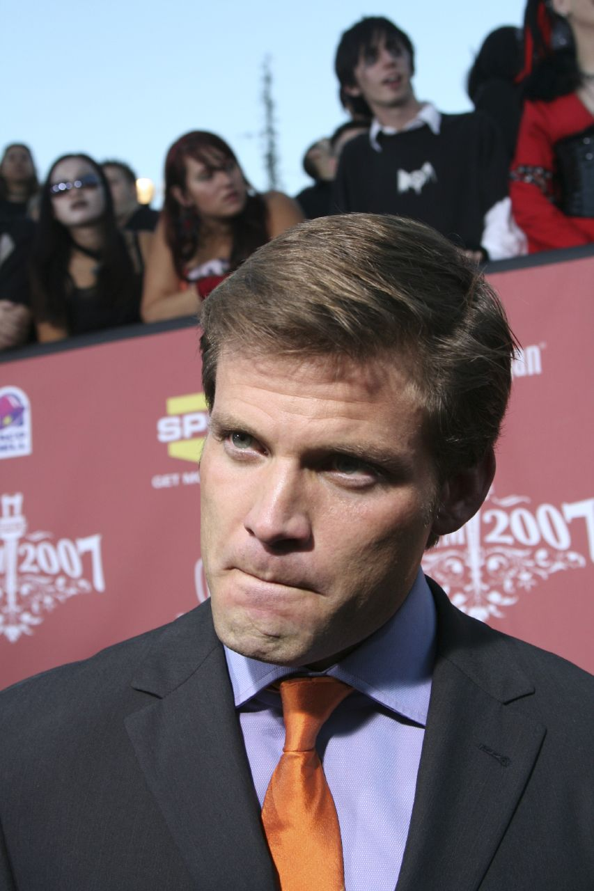 American actor Casper Van Dien. Taken at the 2007 Scream Awards.